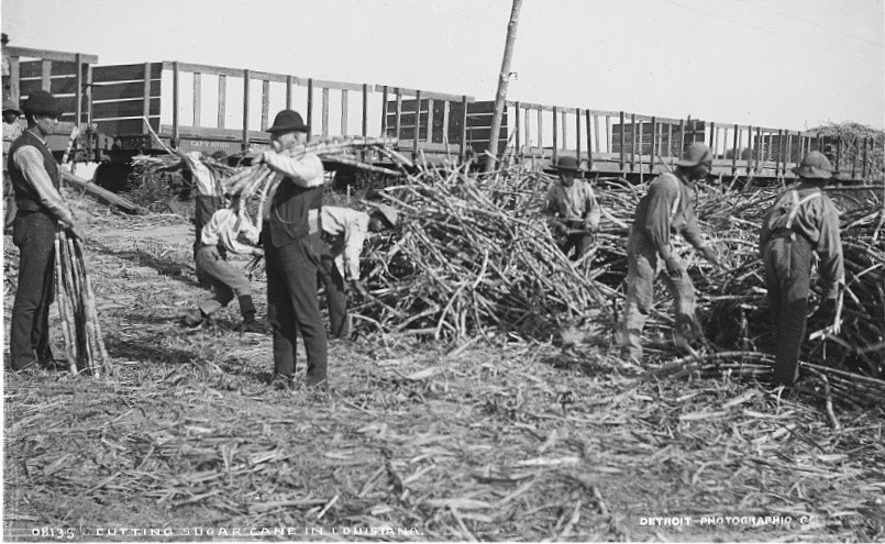 Cutting sugar cane in Louisiana